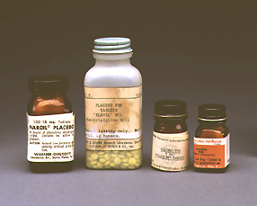 Prescription placebos used in research and practice.